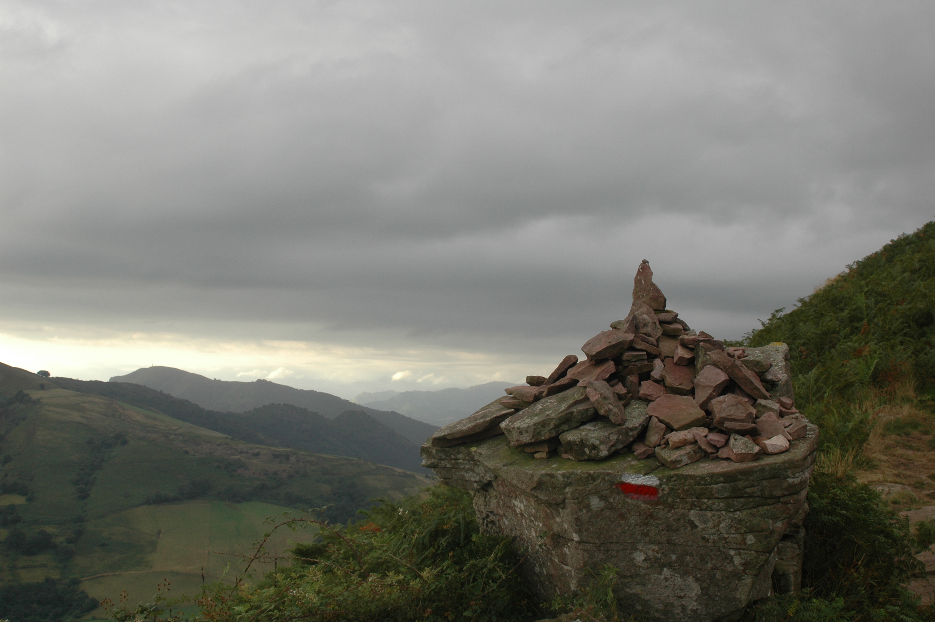 Bidarray, GR 10. Photo prise le 11/08/06 par Harrieta171